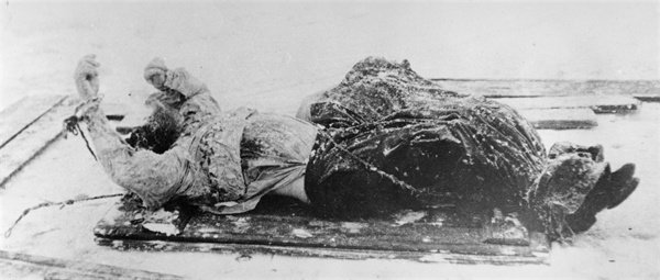 Police photograph of Rasputin's corpse, found floating in the Malaya Nevka River, 1916